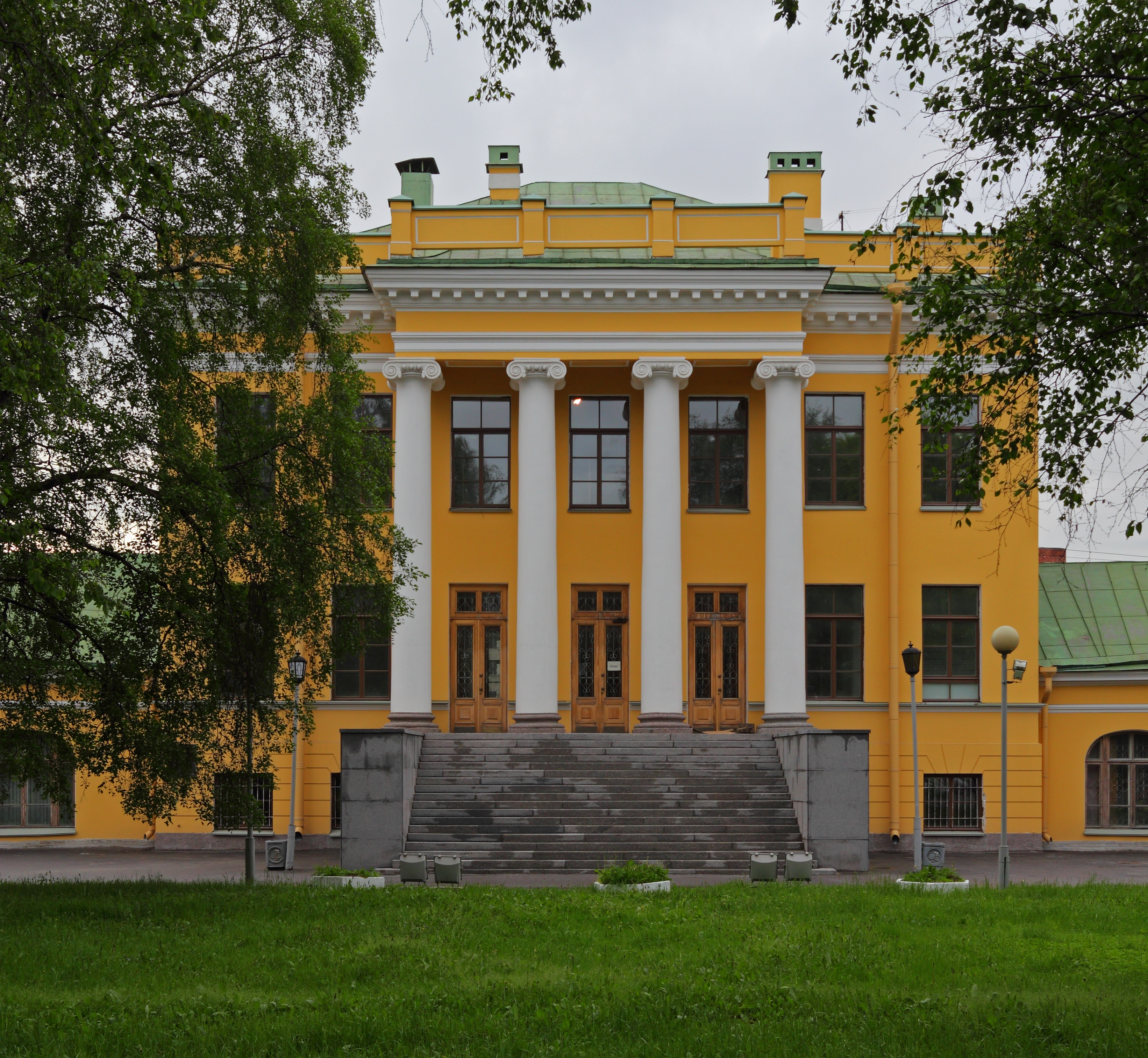 Saint Petersburg, Russia. Kirianovo Palace.